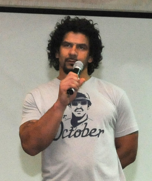 120905-F-US105-005 SOUTHWEST ASIA -- Christopher Draft, Darren Woodson, Kawika Mitchell and Mark Moseley, National Football League alumni, answer questions from 380th Air Expeditionary Wing members during their visit here Sept. 5, 2012. Four Washington Redskins cheerleaders and these four NFL alumni visited the wing Sept. 5 and 6 during an Armed Forces Entertainment tour. (Note the EXIF date of 2012-01-19 is likely incorrect.)